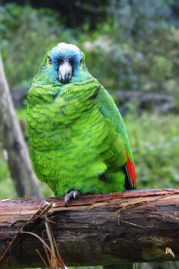 A Blue-fronted Amazon at Gramado Zoo, Rio Grande do Sul, Brazil.